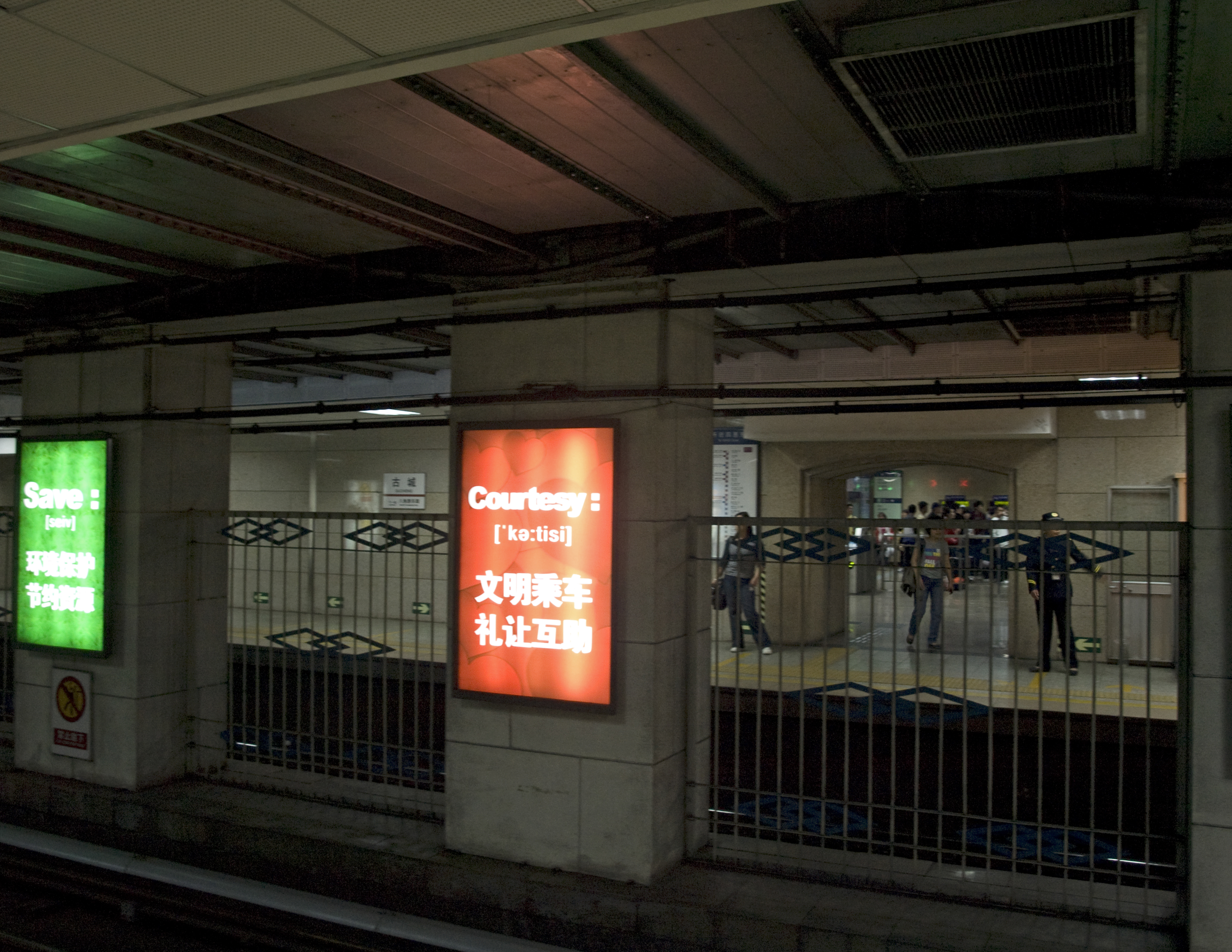 Guchenglu station, Beijing Highway. The eastbound platform seen from the westbound platform